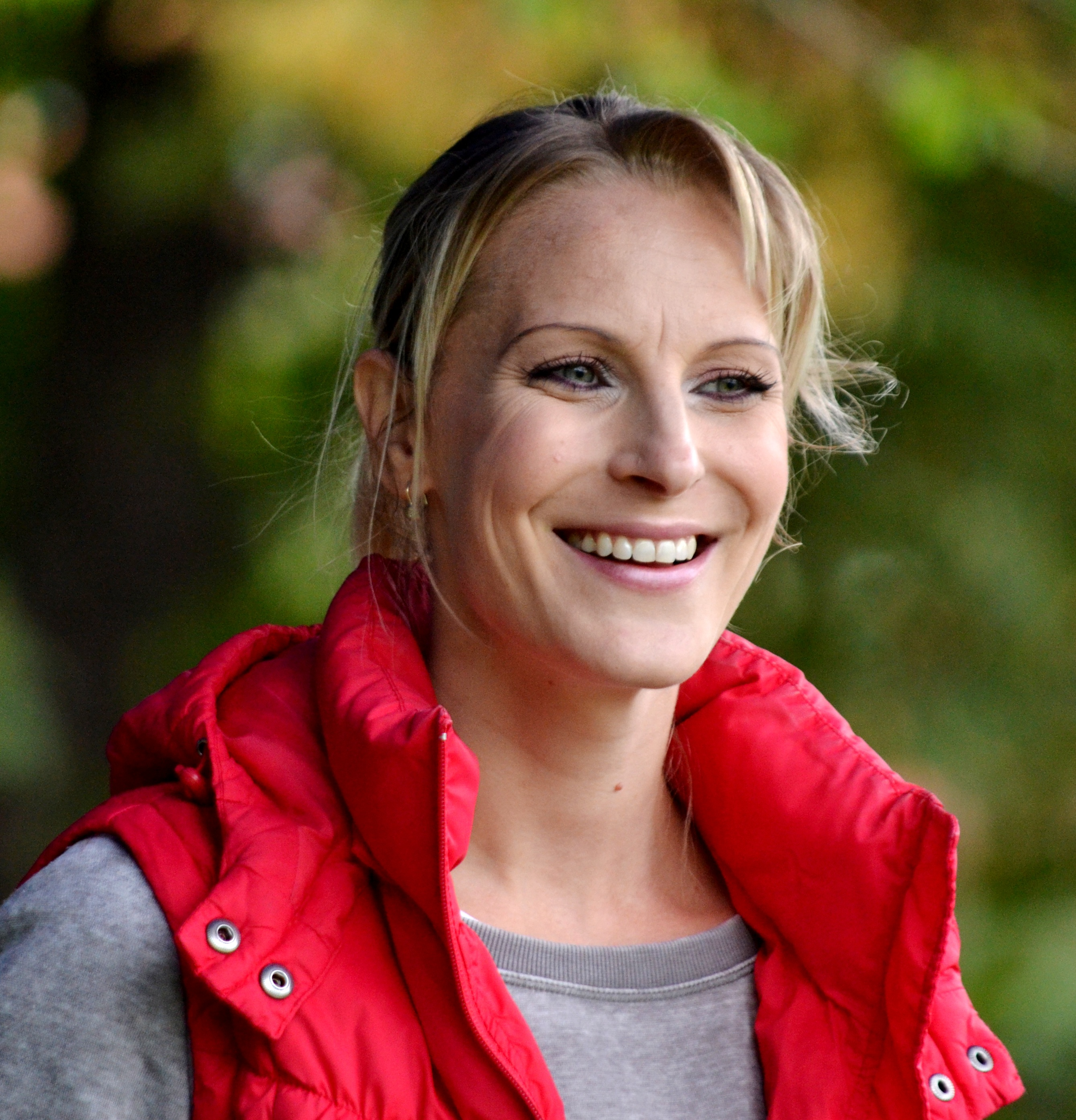 Kateřina Brzobohatá, member of HOLKI, Czech girls vocal band (2014)